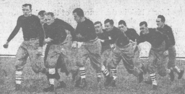 American football players demonstrate the "flying wedge," a maneuver created by Harvard coach Lorin Deland in the 1890s.